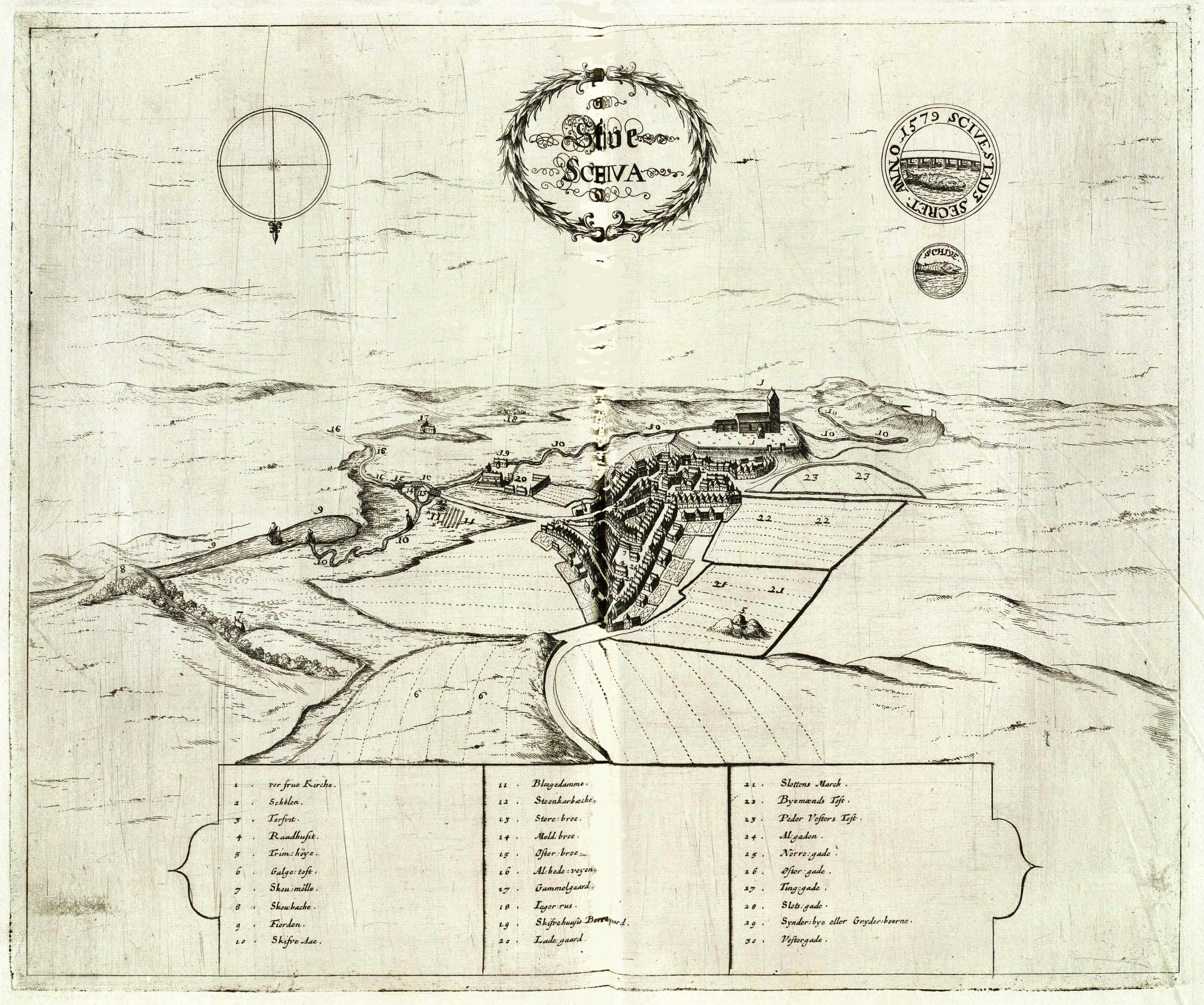 Prospect of the city of Skive. Binding shadow in the center has been digitally removed.